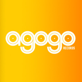 The company logo of Agogo Records